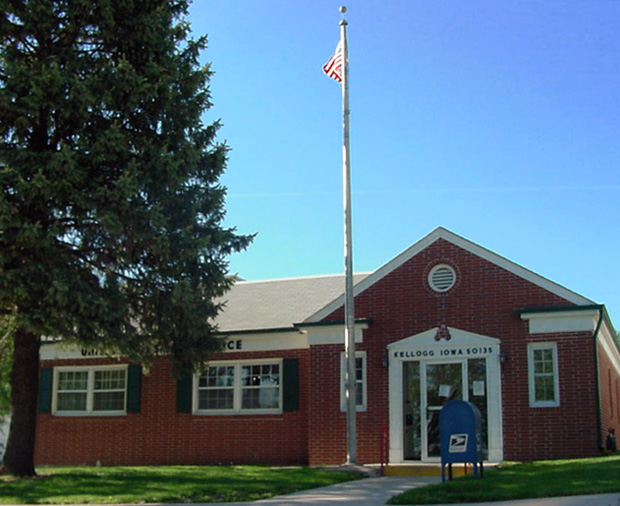 The post office in Kellogg. Image taken by Adm58. Date: May 21, 2002